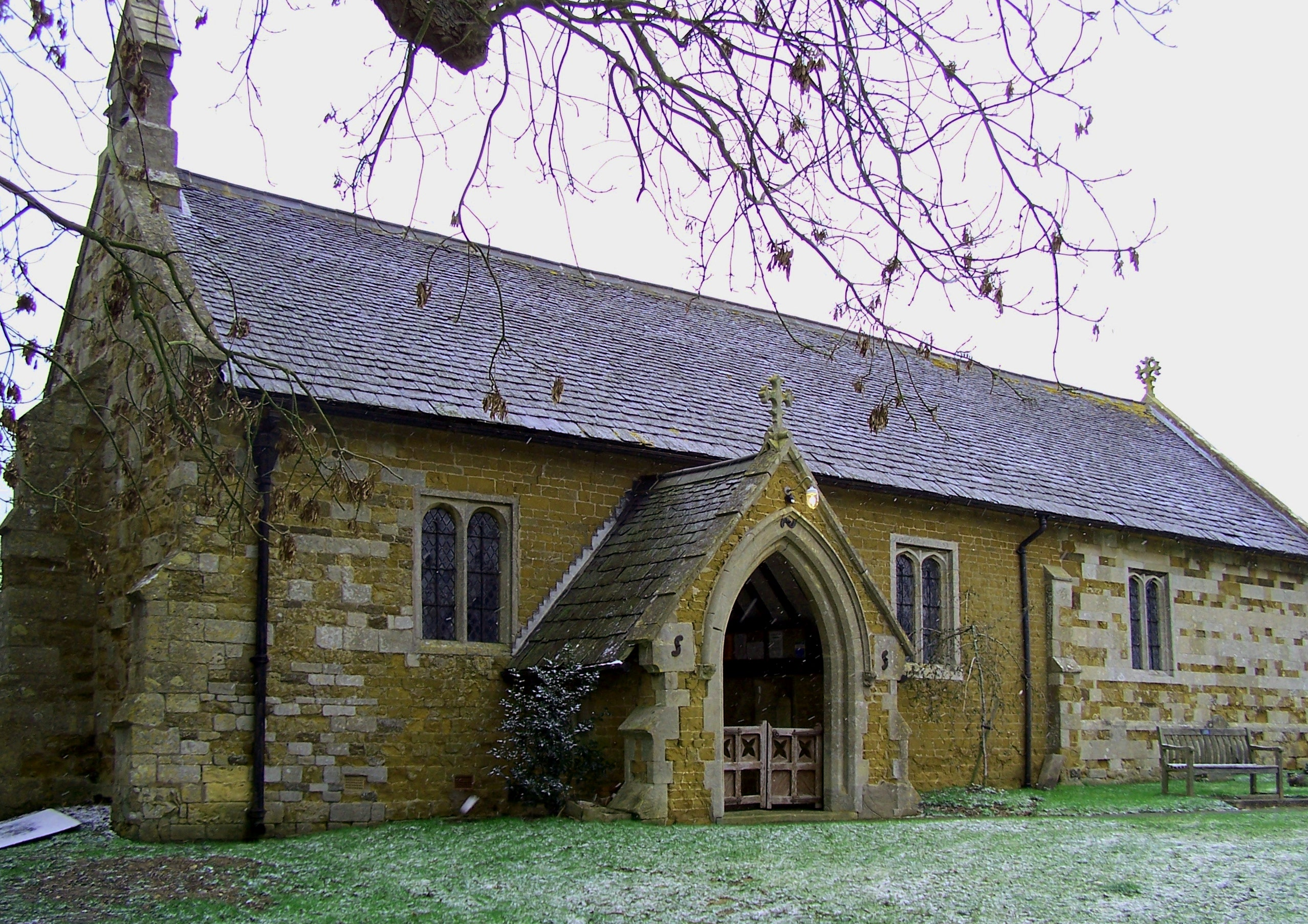 St Michael and All saints Thorpe Satchville.